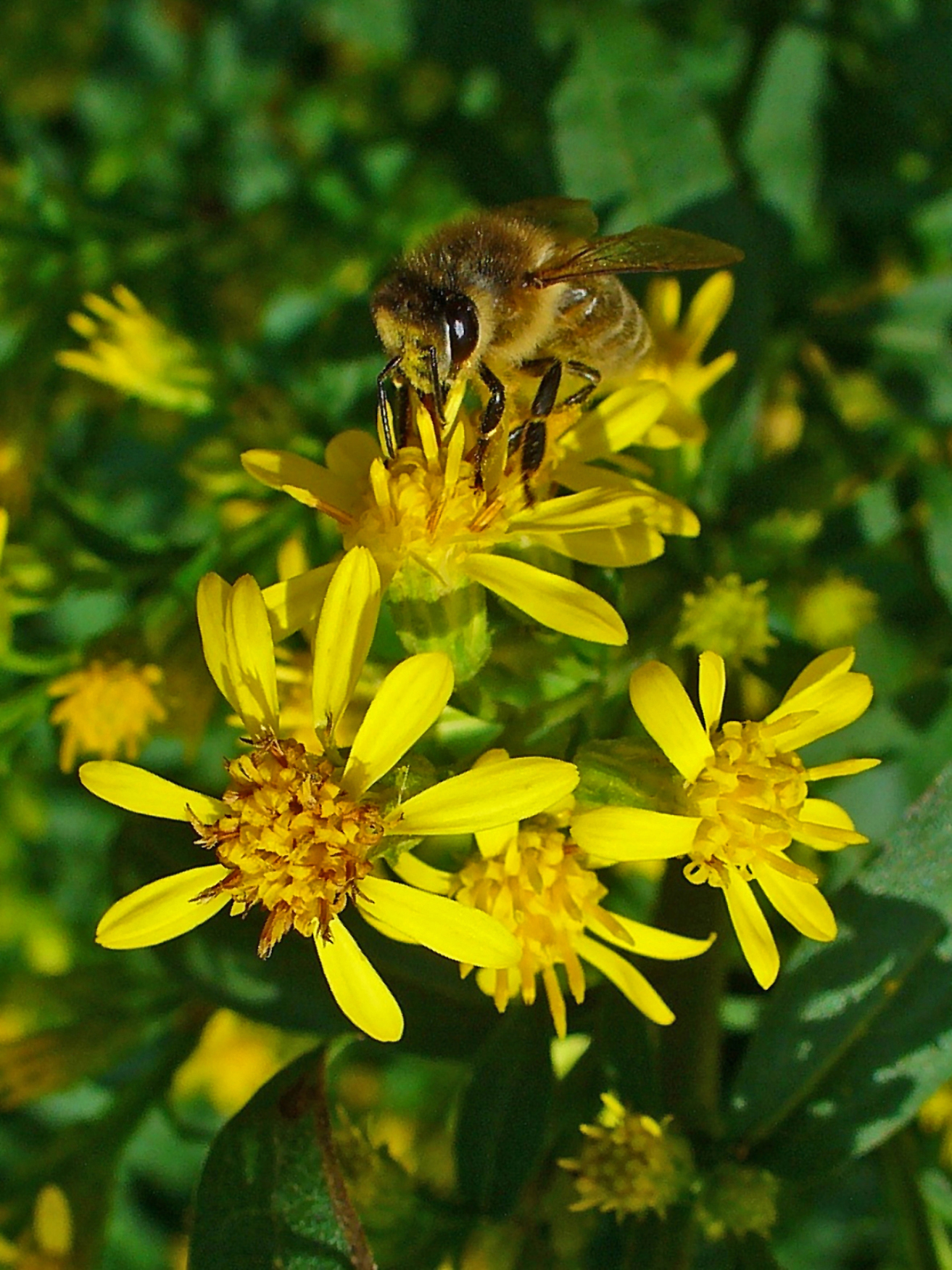 Solidago virgaurea, Asteraceae, Goldenrod, Woundwort, inflorescences.